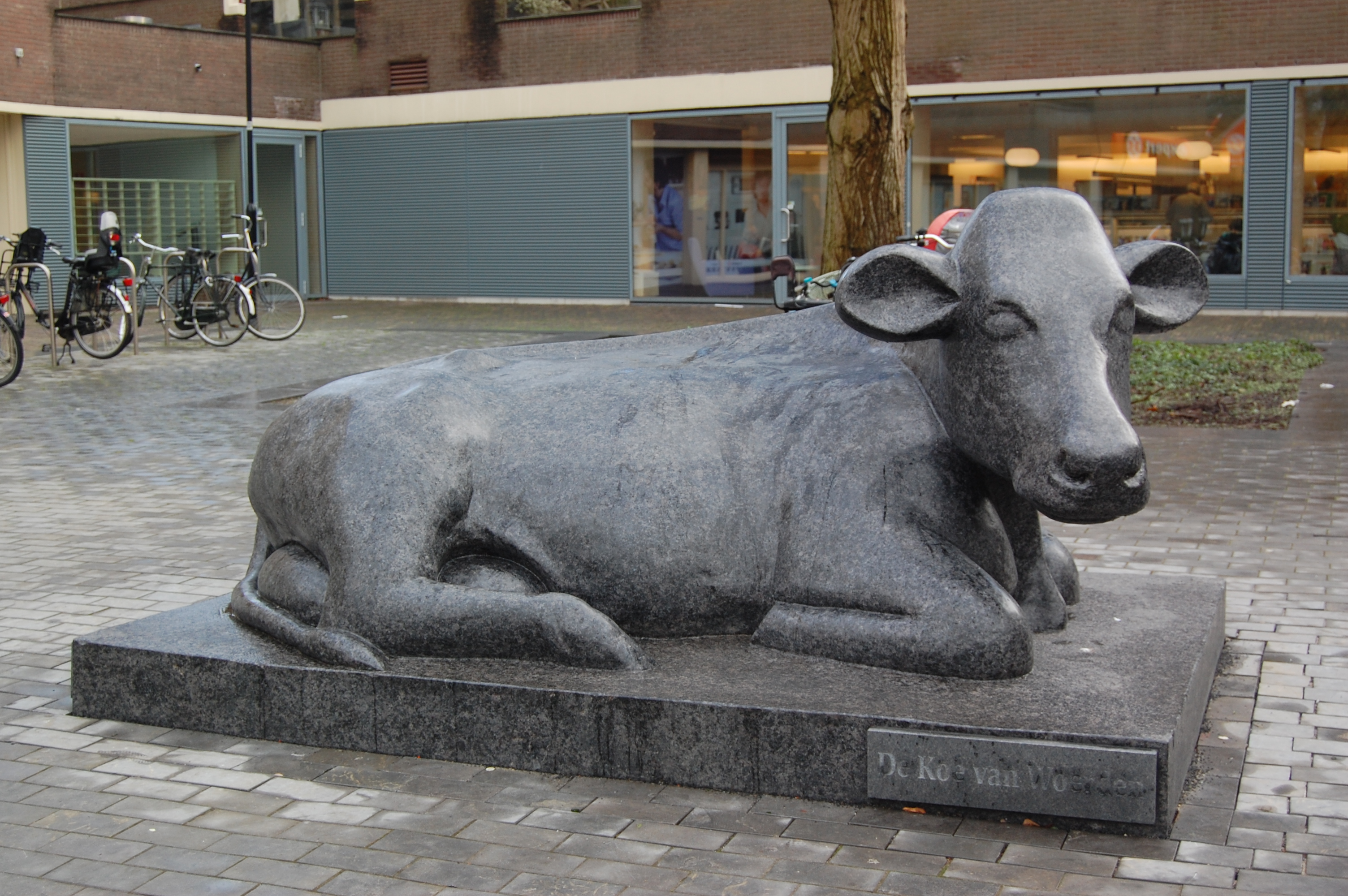 Sculpture of a sitting cow in Woerden, The Netherlands, from 2014